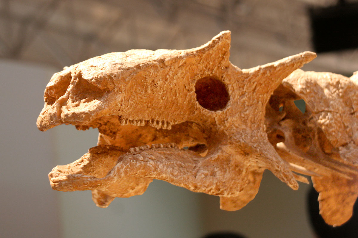 Skull of Pinacosaurus mephistocephalus at Makuhari Messe